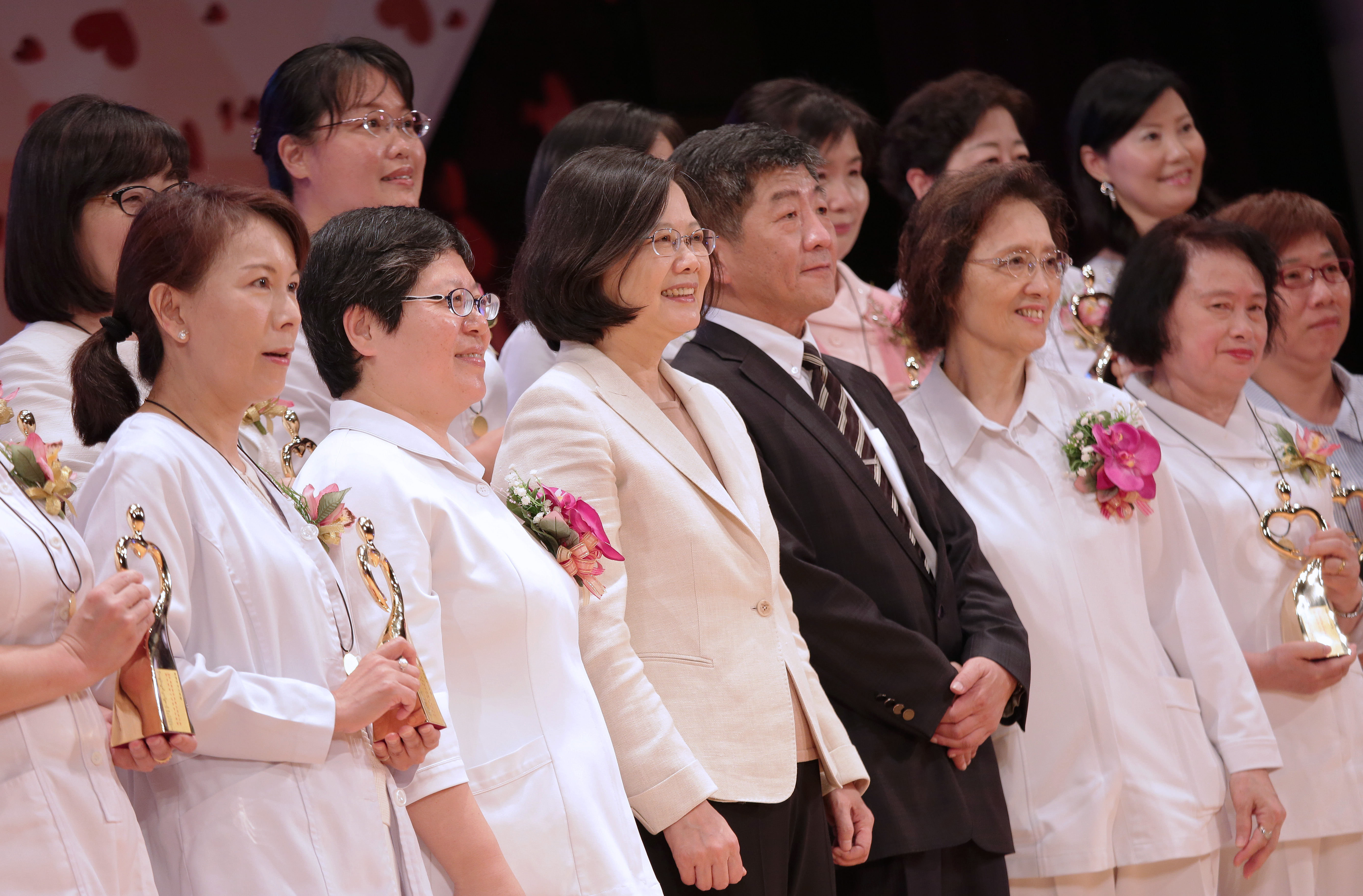 授權方式及範圍：中華民國總統府│政府網站資料開放宣告 Authorization Method & Scope: Office of the President, Republic of China (Taiwan) | Government Website Open Information Announcement